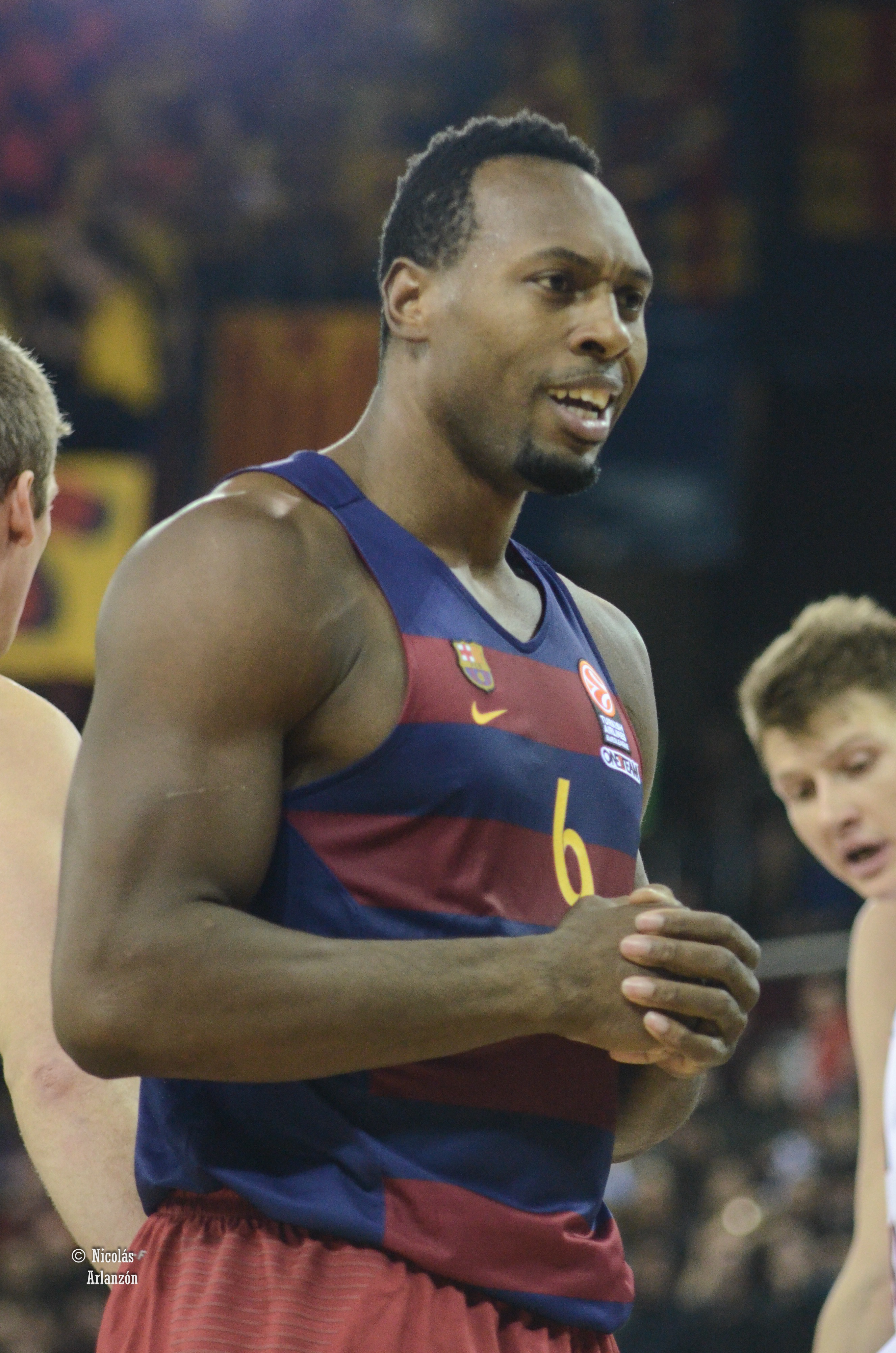 Joey Dorsey playing for Barcelona in an Euroleague match against CSKA Moscow on 12 March 2016